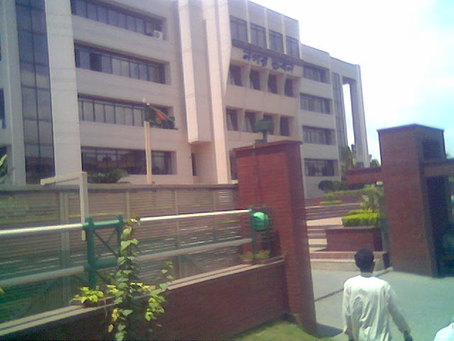 Nogor Bhaban or City Centre of Rajshahi City Corporation.